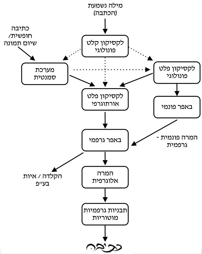 the spelling model